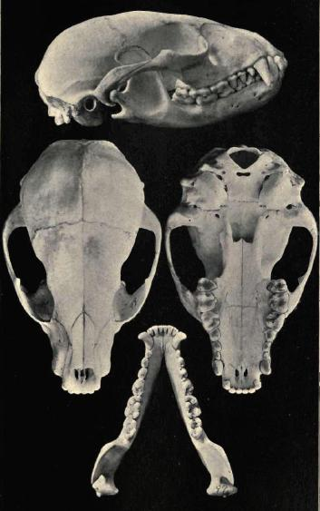 Raccoon skull